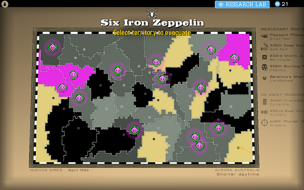 Atom Zombie Smasher - worldmap